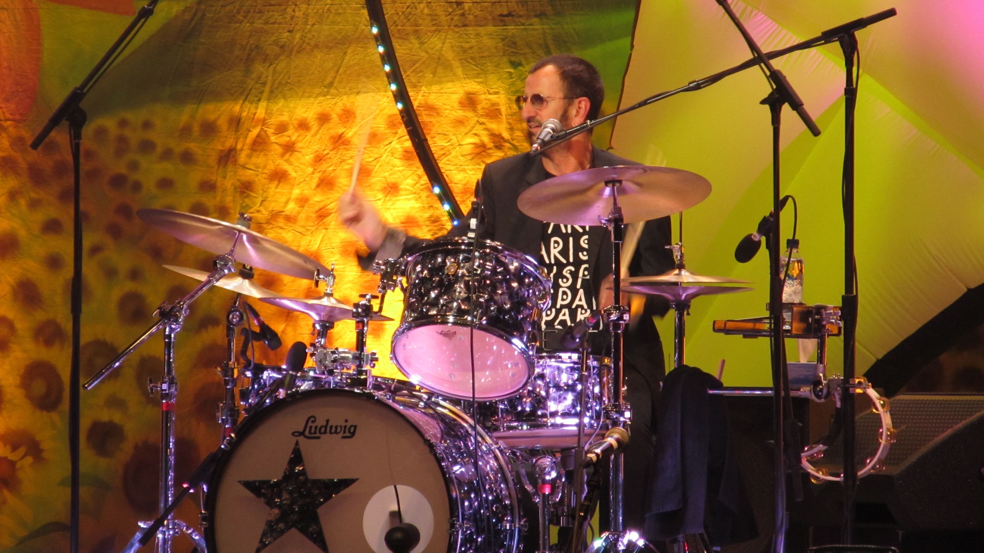 Ringo Starr concert in Paris June 26, 2011 : Ringo Starr and his All-Starr Band